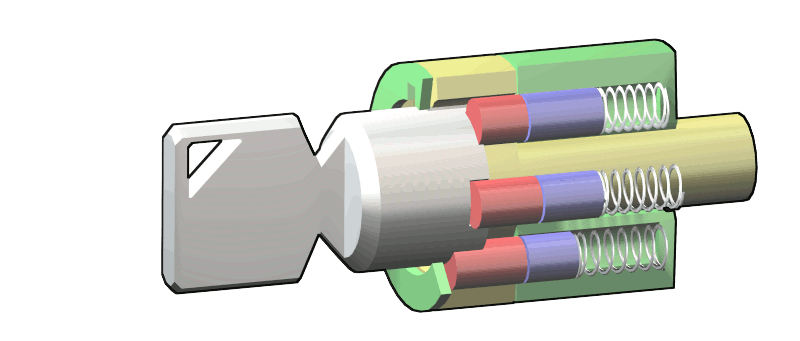 Illustration of a Tubular pin tumbler lock made by Wapcaplet in Blender and touched up in the GIMP.